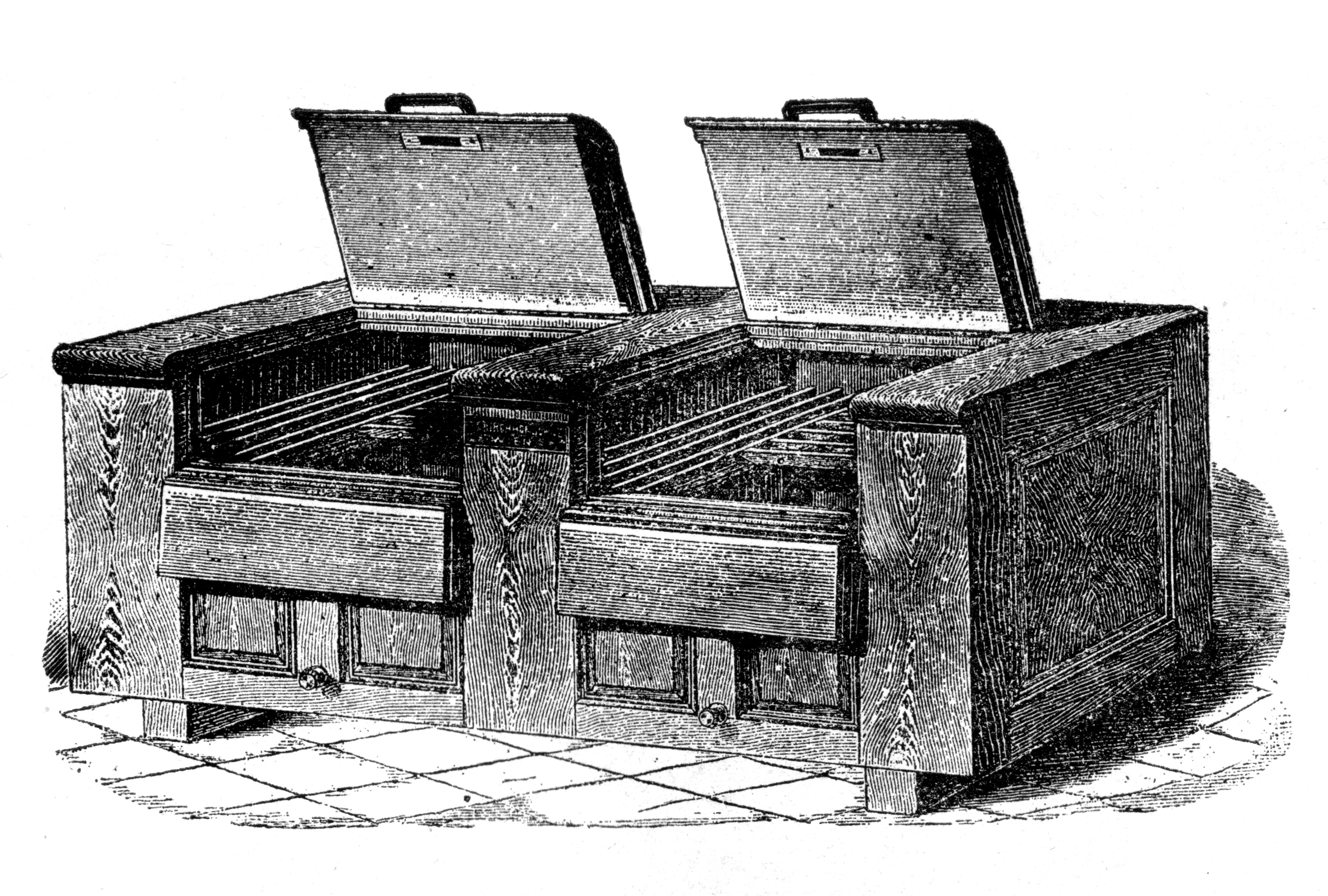 Ink drawing of the view of a device with two case covers which conserves food by use of ice.